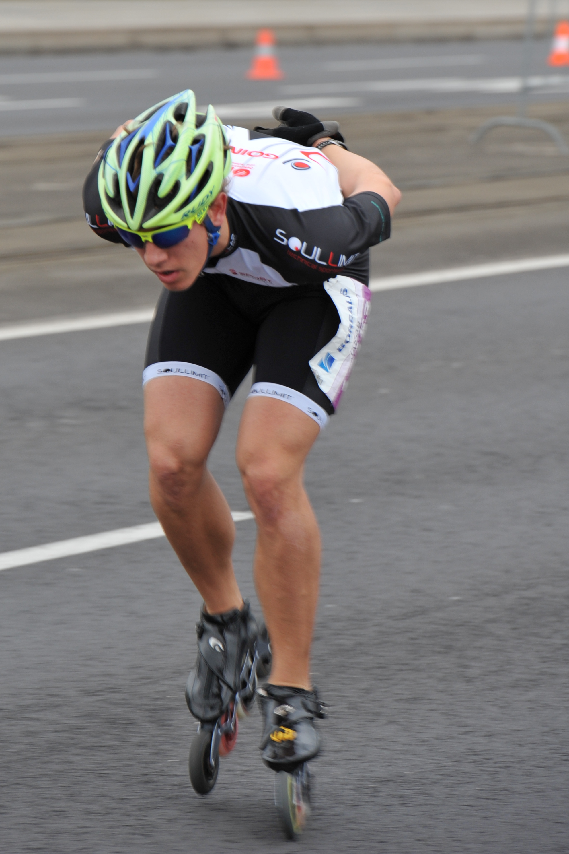 The making of this work was supported by Wikimedia Austria. For other files made with the support of Wikimedia Austria, please see the category Supported by Wikimedia Österreich. Jakob Ulreich at km 8 of Linz Donau Marathon 2012